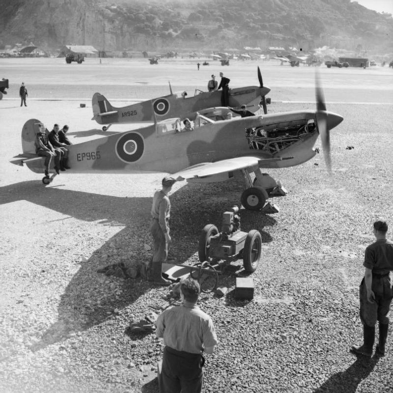 "Supermarine Spitfire Mark Vs assembled by the Special Erection Party for Operation TORCH, undergoing initial engine tests at North Front, Gibraltar. The Special Erection Party was established at Gibraltar in July 1942 to assemble and test fly aircraft crated from Britain by sea for the reinforcement of Malta. On 28 October 1942 an unexpected shipment of 116 Spitfires and 13 Hawker Hurricanes arrived to be prepared for the Allied landings in North Africa (Operation TORCH) and a further shipment was received a few days later. Despite shortages of personnel, the SEP, assisted by soldiers of the Malta Brigade, assembled, test-flew and cannon-tested all the aircraft in time for the commencement of the Operation (8 November)."